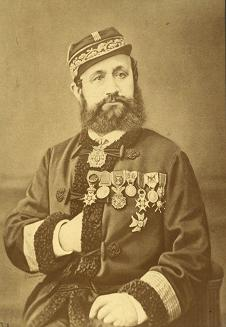 Léonce Détroyat (1829–1898), général commandant le camp de La Rochelle en 1870